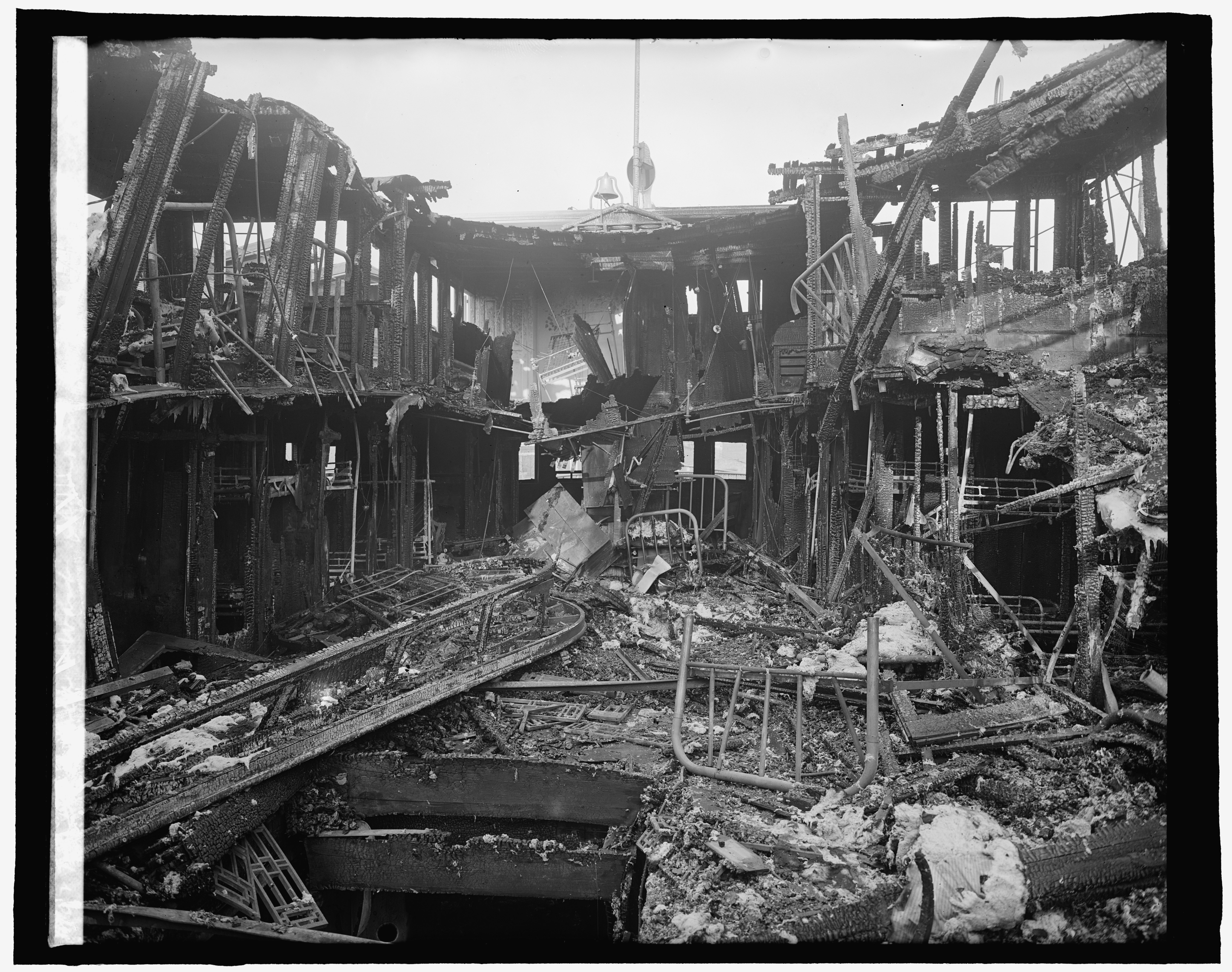 Title: Norfolk & Wash. Steamboat Co. fire Abstract/medium: 1 negative : glass ; 8 x 10 in. or smaller.